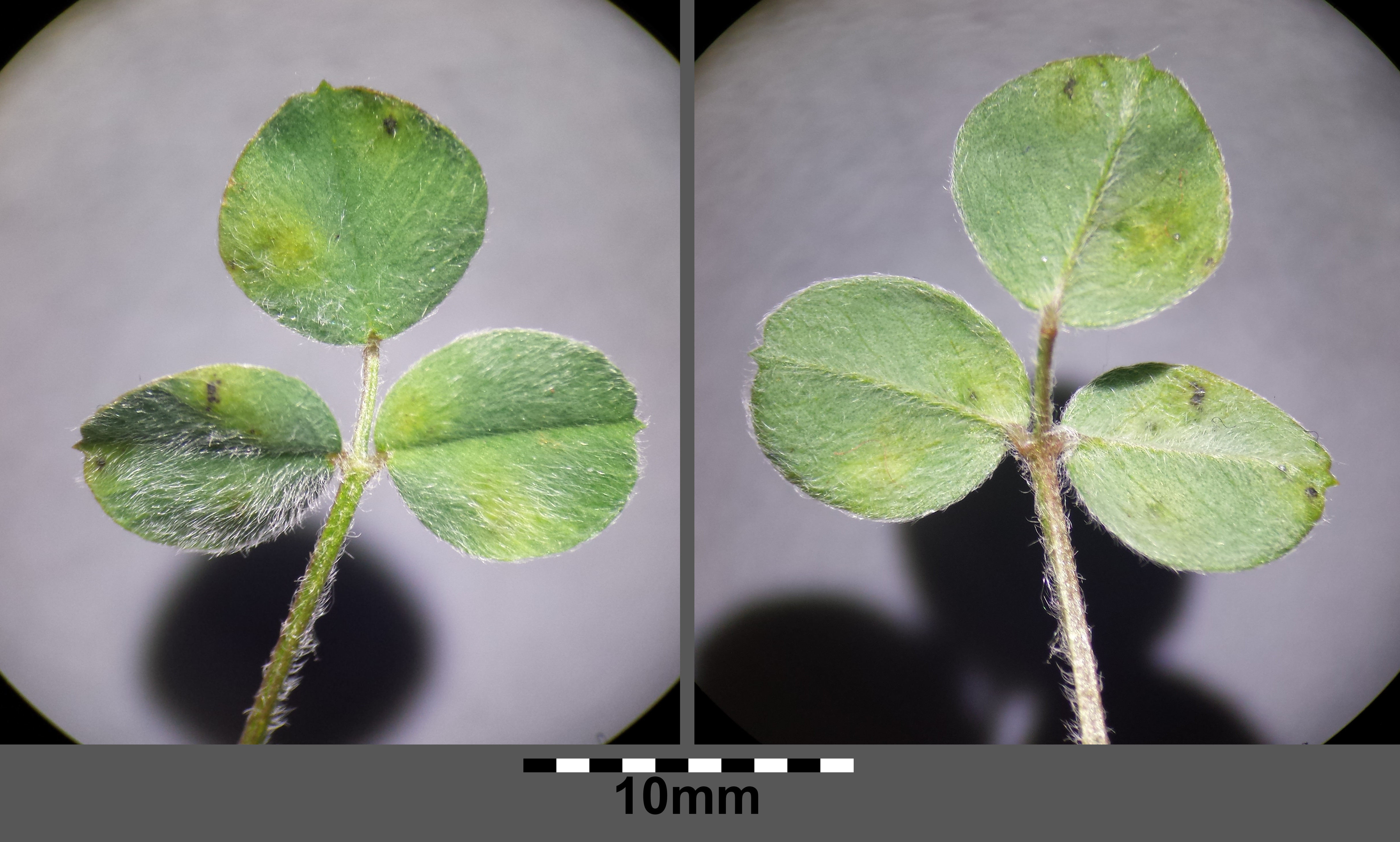 Leaf (top and bottom side) Taxonym: Medicago minima ss Fischer et al. EfÖLS 2008 ISBN 978-3-85474-187-9 Location: abandoned marshalling-yard Breitenlee, Vienna-Donaustadt - ca. 160 m a.s.l. Habitat: ballast